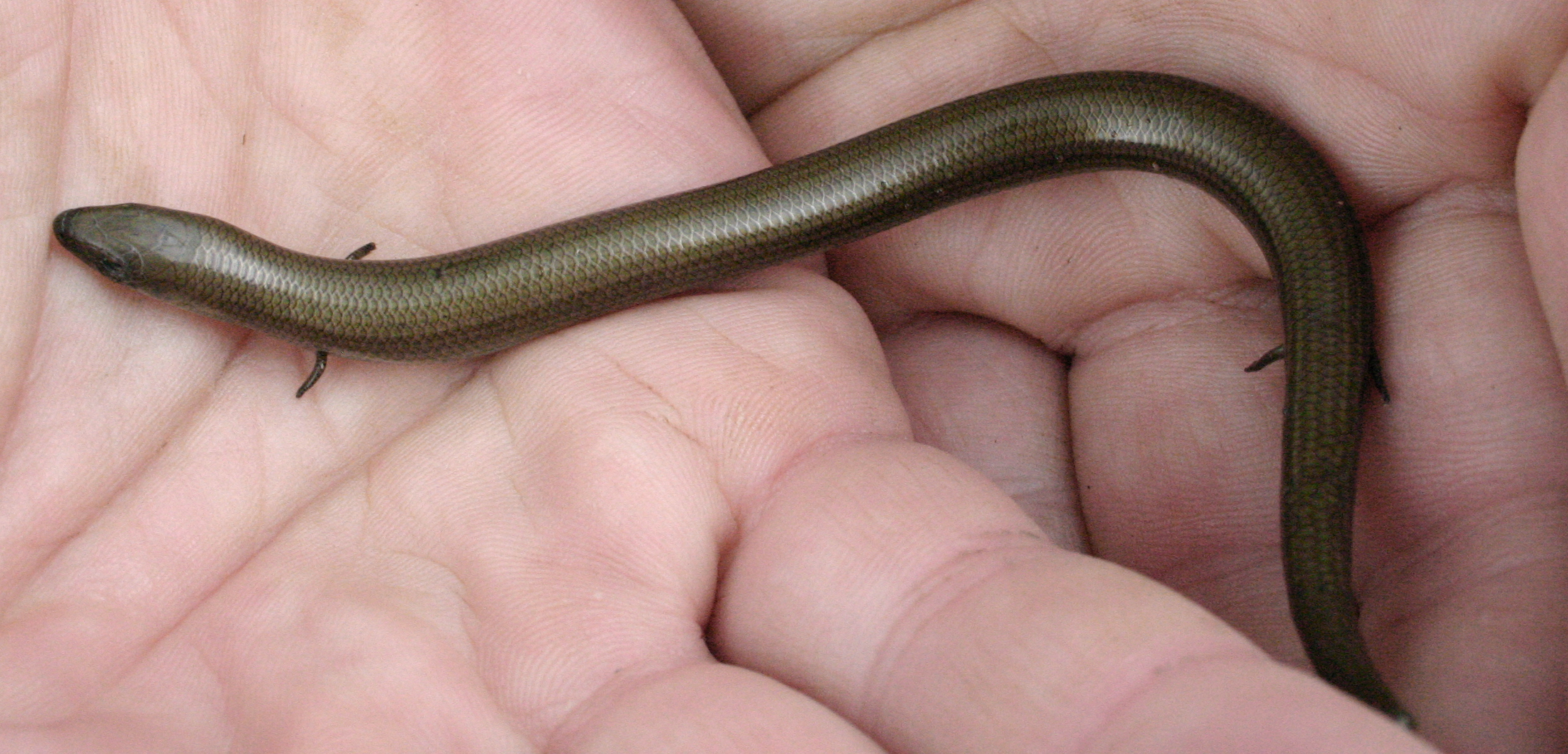 Chalcides chalcides, photo taken by User:Hjvannes on 13-02-2007 near Felitto, Campania, Italy.